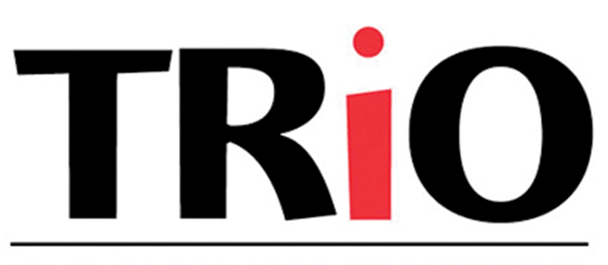 TRiO Programs Logo